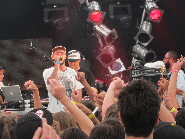 The hip hop group Home Brew performing at the Homegrown festival in Wellington, New Zealand, February 2012.